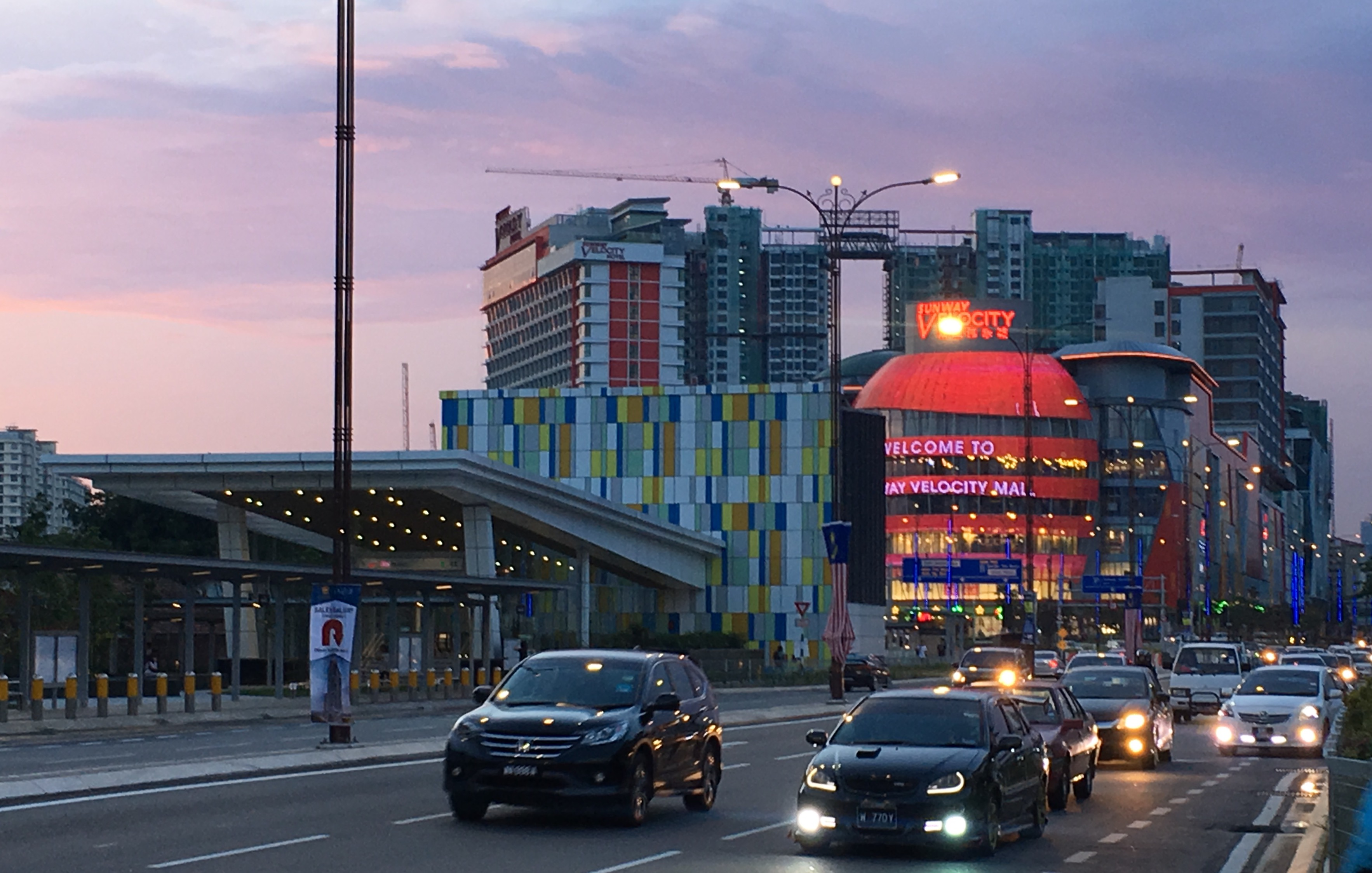 Maluri MRT Station's Entrance B along Jalan Cheras with the Sunway Velocity Shopping Centre in the background.